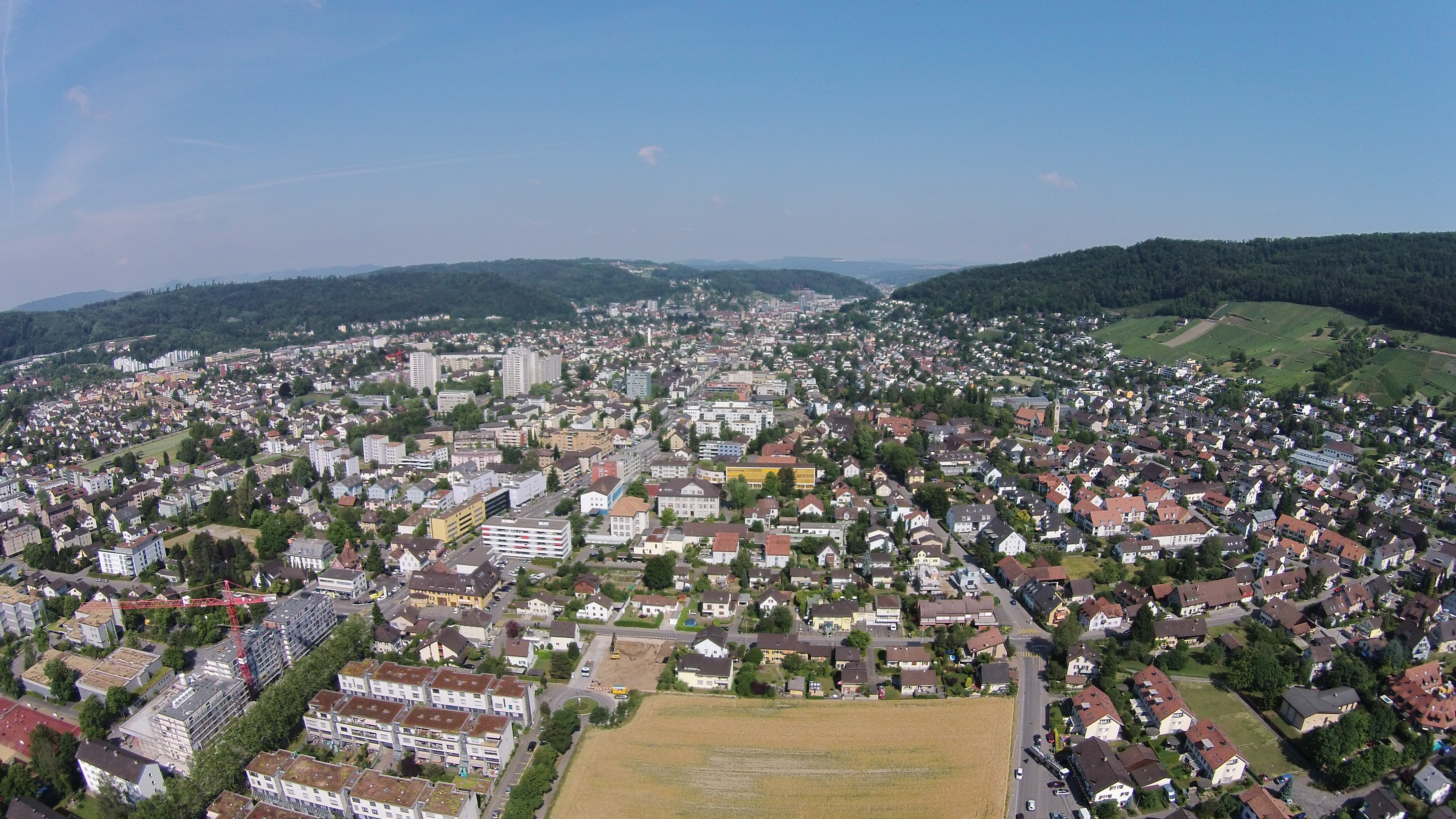 Aerial view of Wettingen